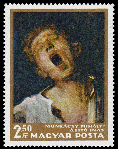 Paintings - Yawning Boy Denomination: 2.50 Forint